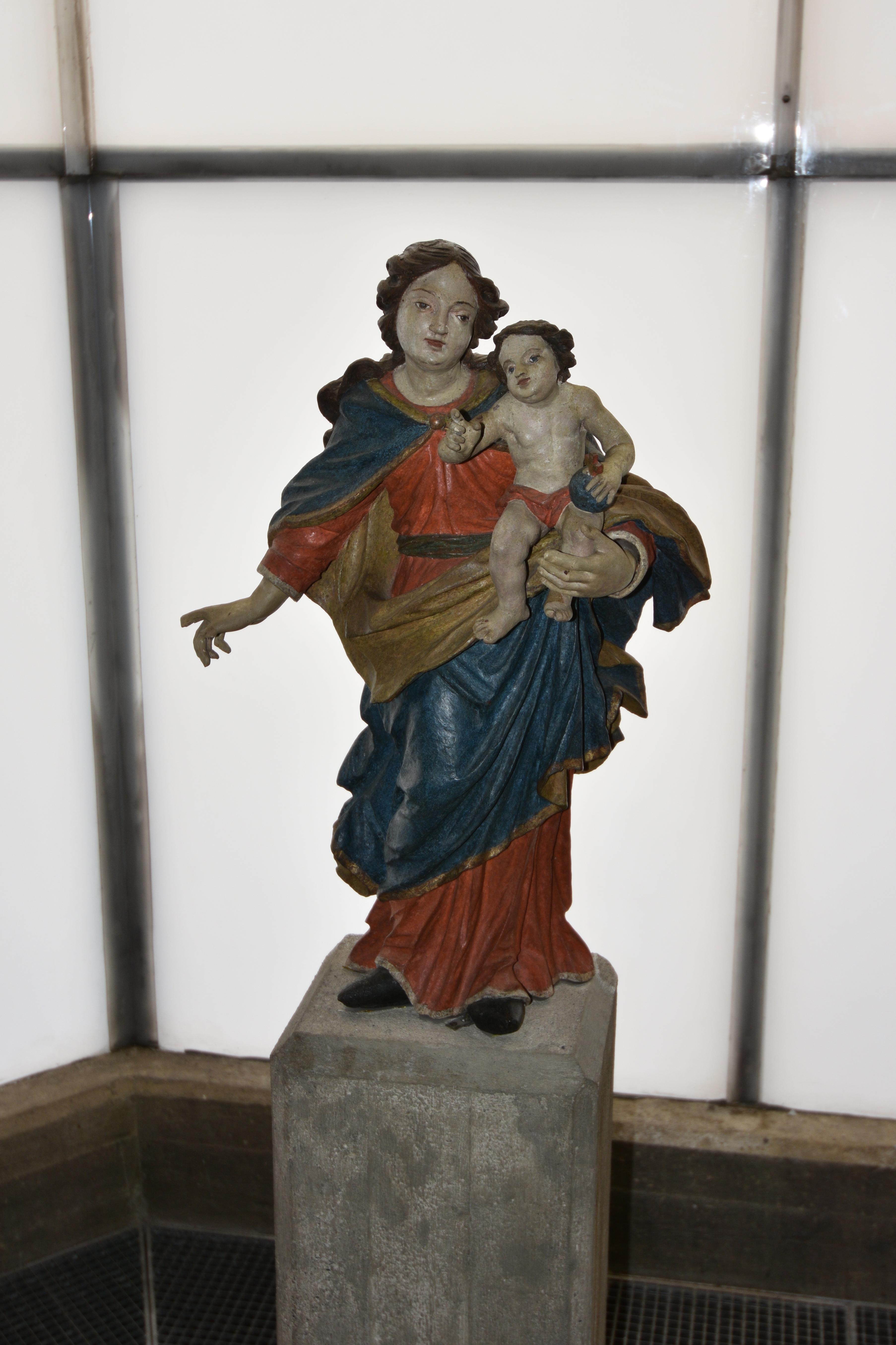 Church Oberwart, Unterkirche - Interior